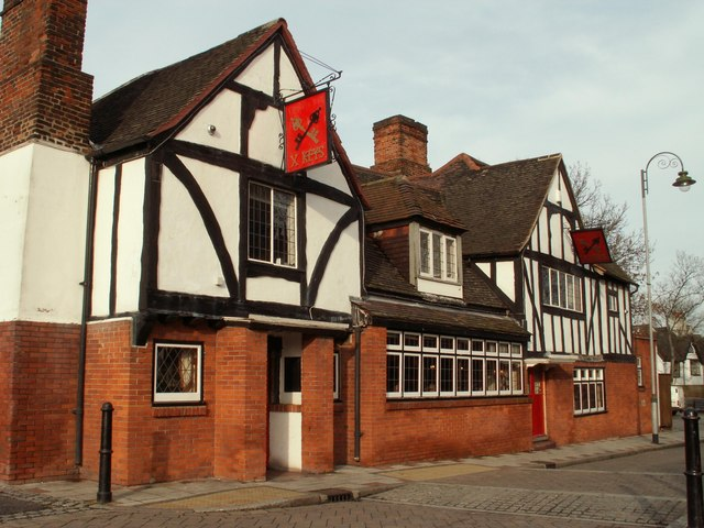 Cross Keys public house, Crown Street, Dagenham, Essex, seen from the southwest. The building is 15th-century; the remodelling of the ground floor is modern. In 1708 it was called the Queens Head. The building was badly damaged by fire in the 1990s, after which it was re-roofed. The Cross Keys refer to St Peter, one of the twin patrons of the parish church immediately opposite.